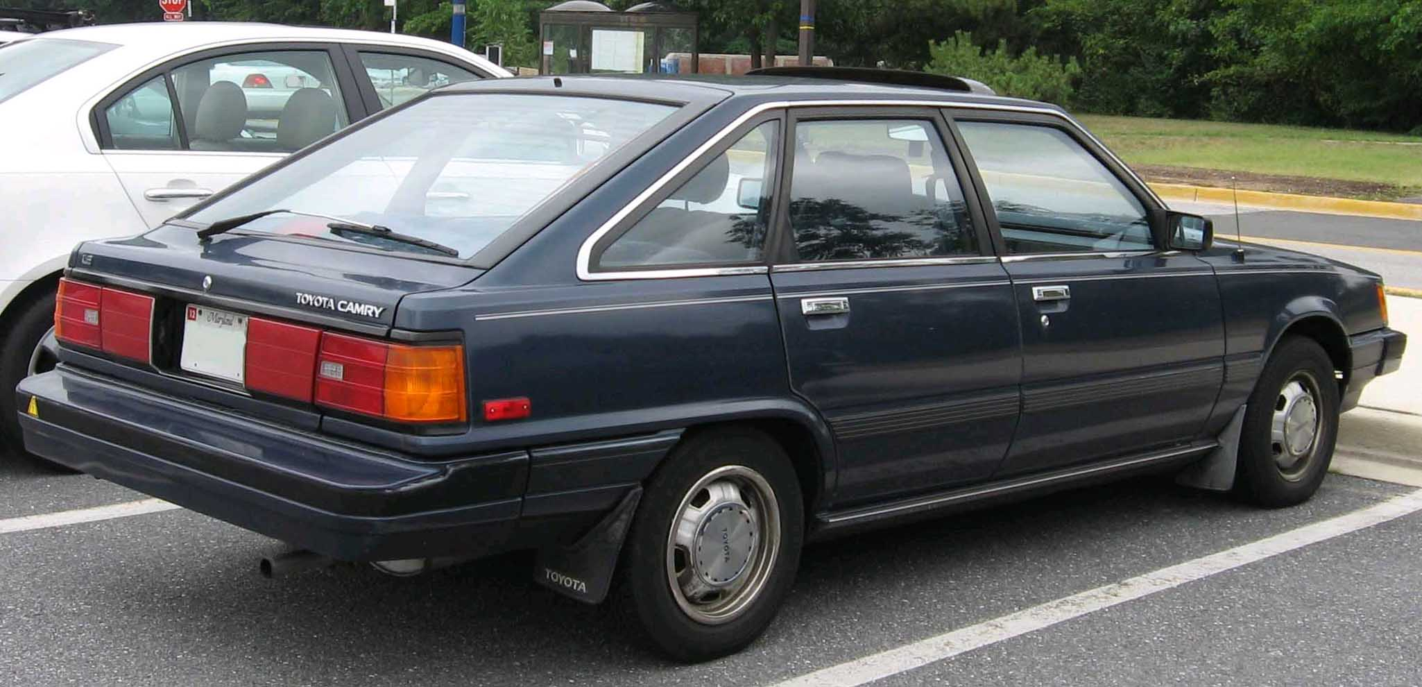 1986 Toyota Camry photographed in USA.